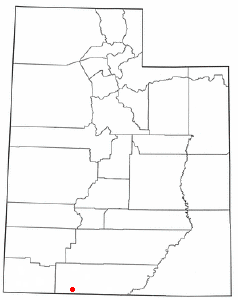 Locator map of Kanab — in Kane County, in southern Utah near the Arizona border.